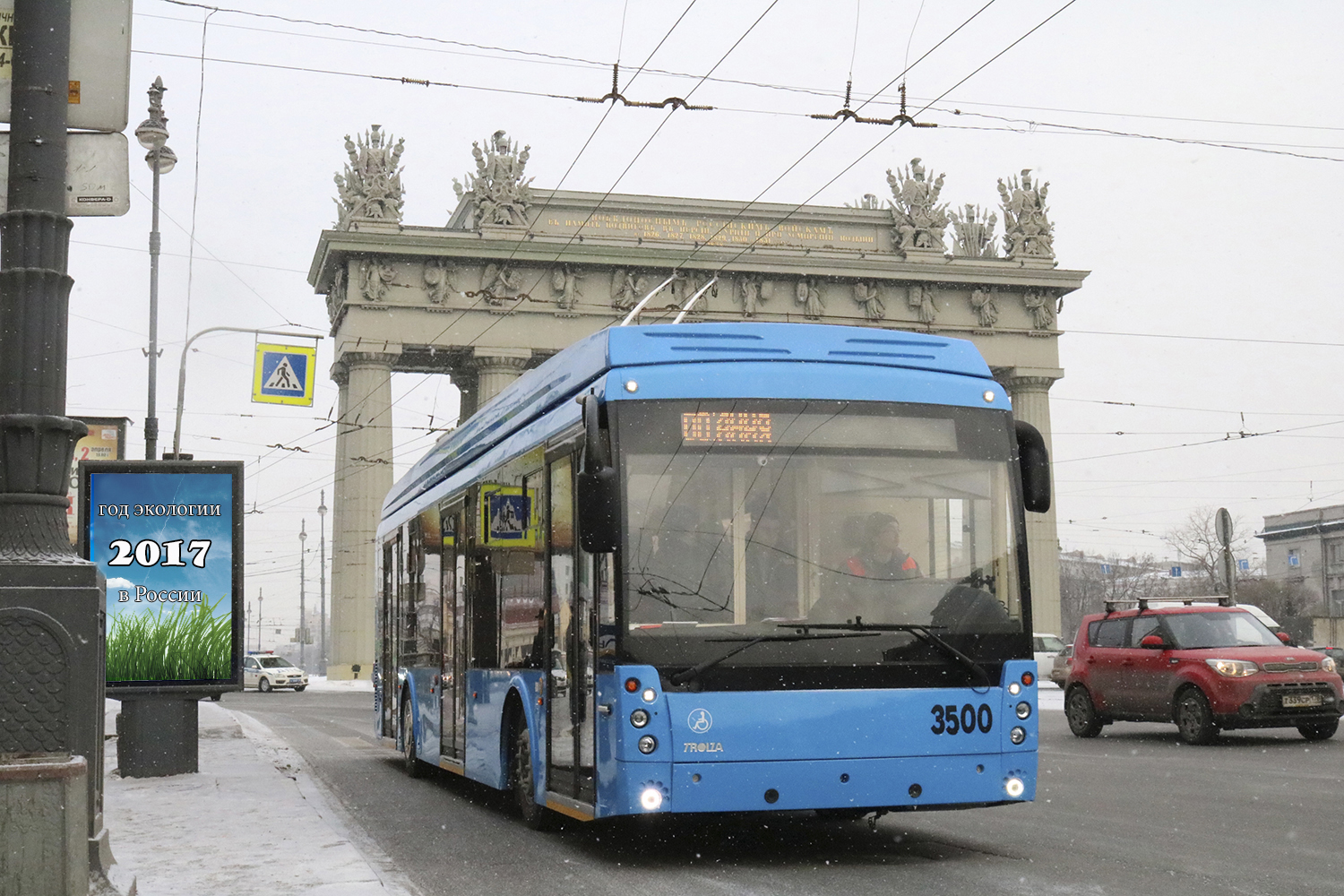 Electric Bus2